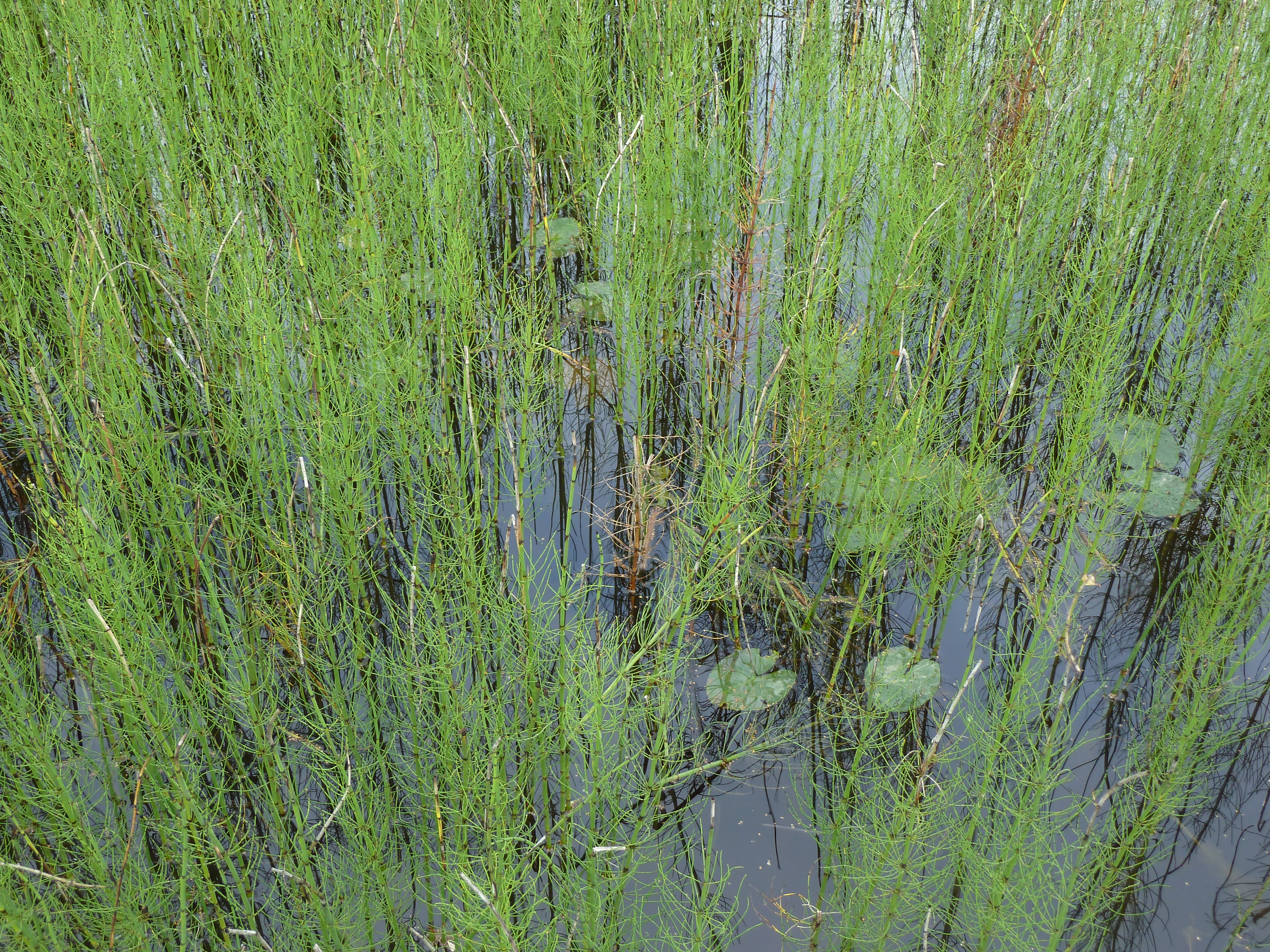 Equisetum in the Moälven.